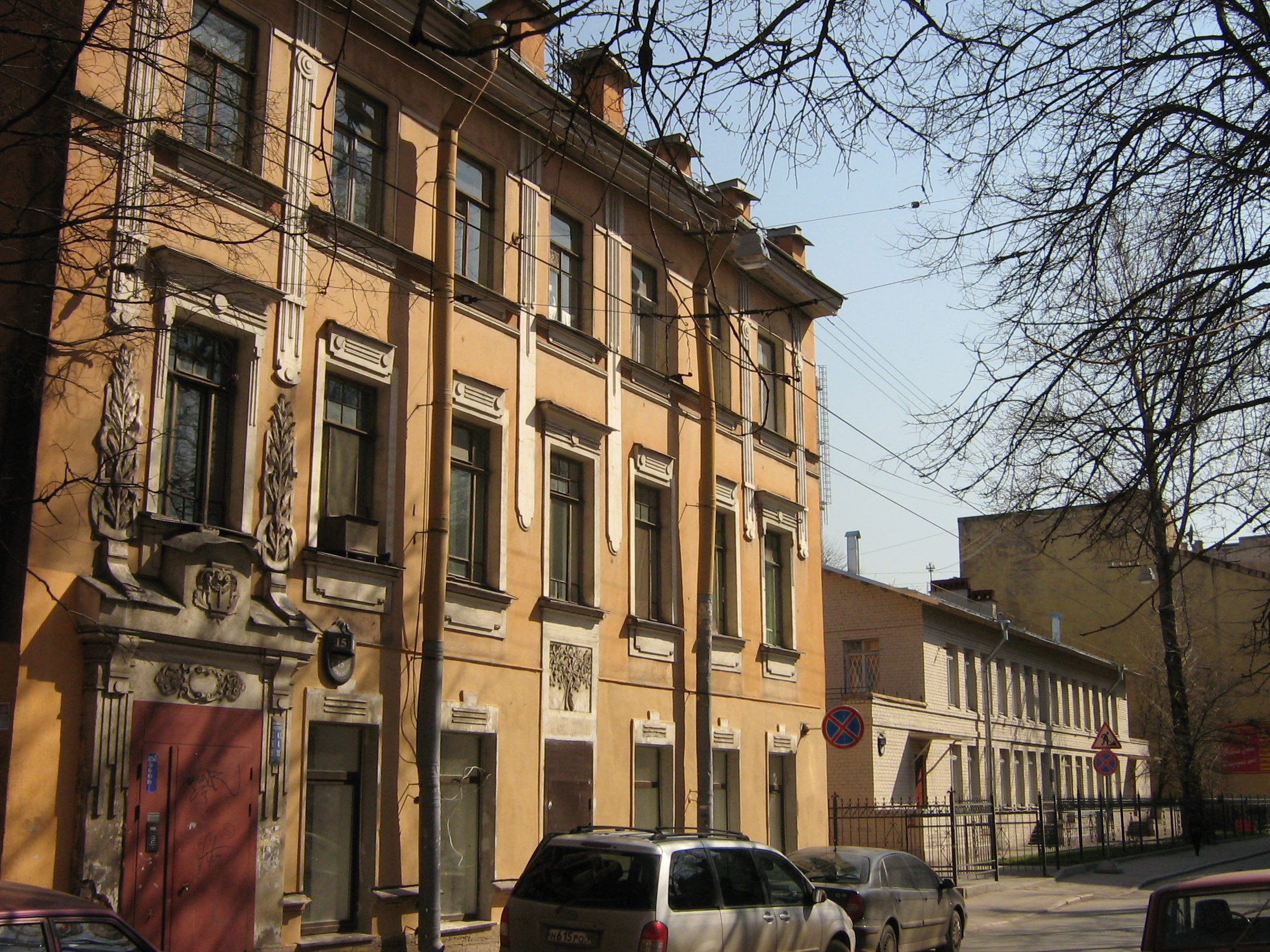 Barmaleeva street (Saint-Petersburg), buildings no. 15 and 13.